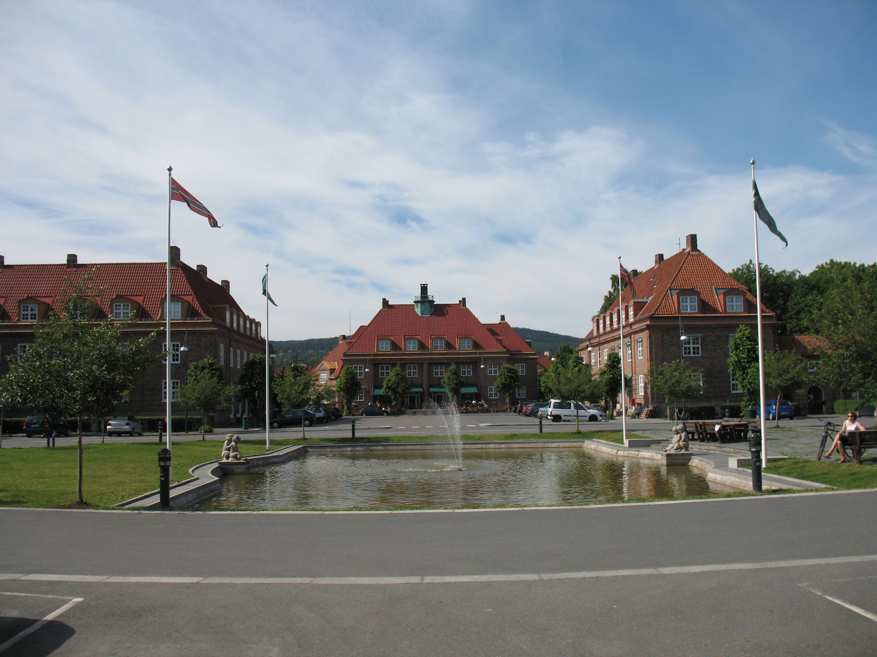 Damplassen in Ullevål Hageby. Oslo, Norway. This was Trygve Gulbranssen's first self owned home. Gulbranssen lived behind the two top roof windows to the right of the center of the picture.